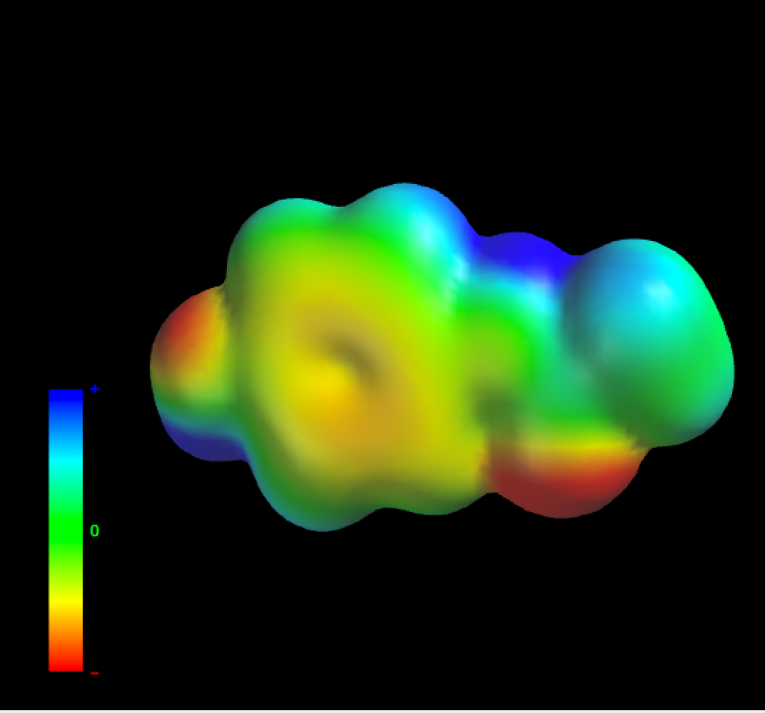 Paracetamol Electron Map Rendering